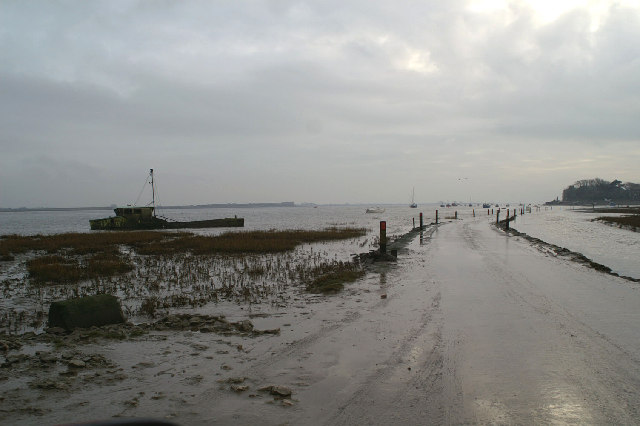 Point of no return. The partially-flooded causeway to Sunderland Point, from the north.